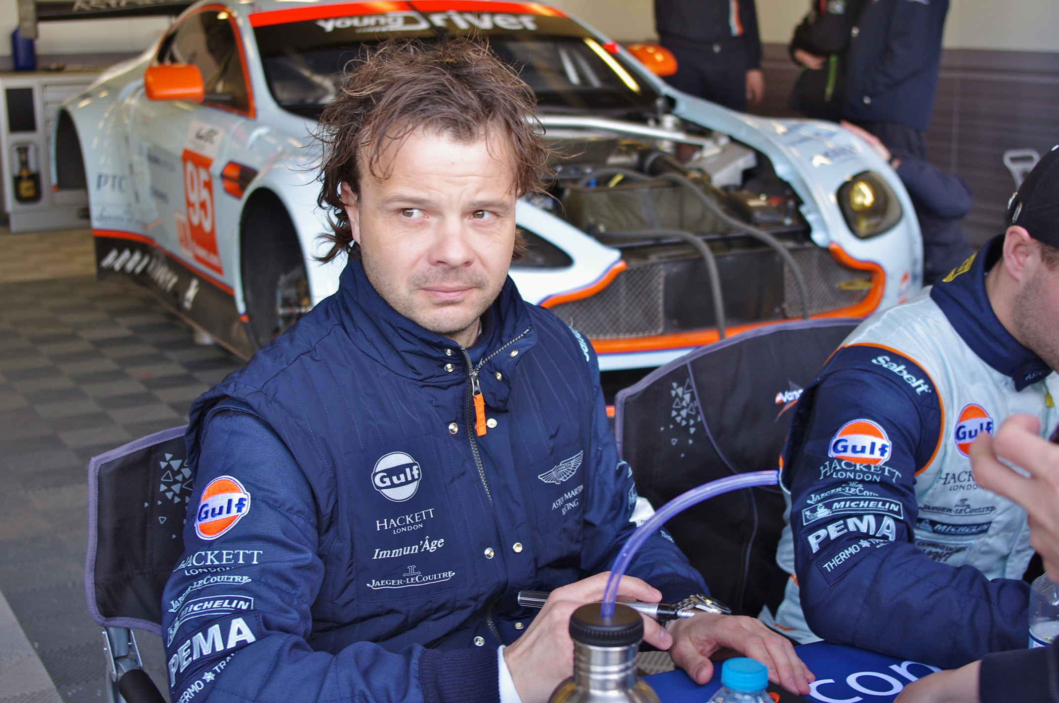 Silverstone 6 Hours 2013 FIA World Endurance Championship (WEC)